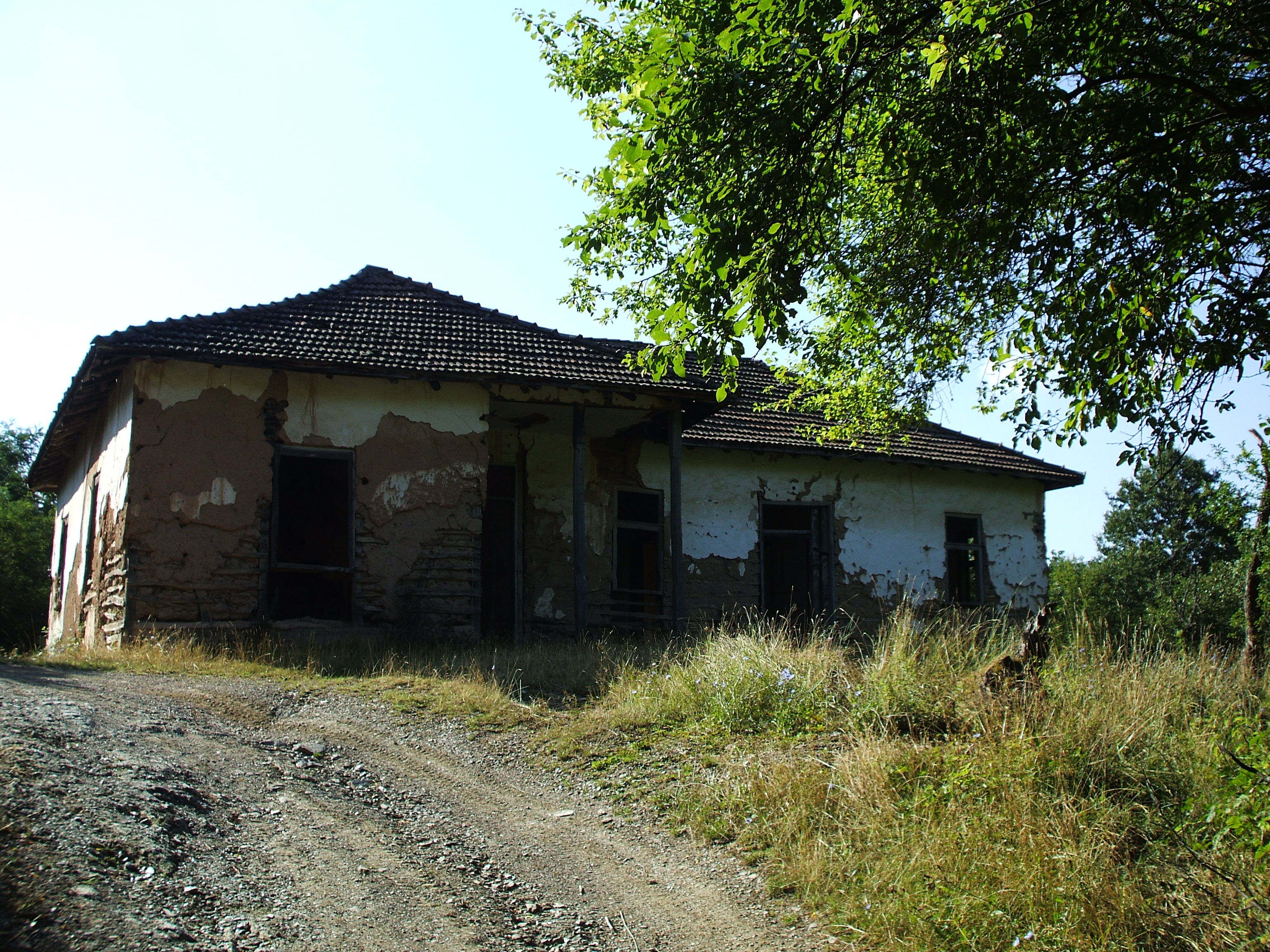 The old elementary school in Leskovdol.